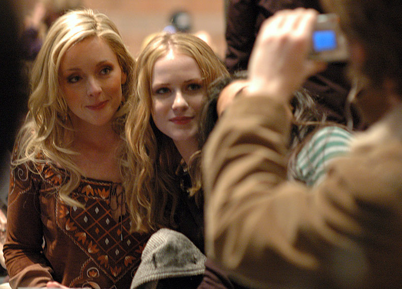 Jane Krakowski and Evan Rachel Wood at the Sundance Film Festival.